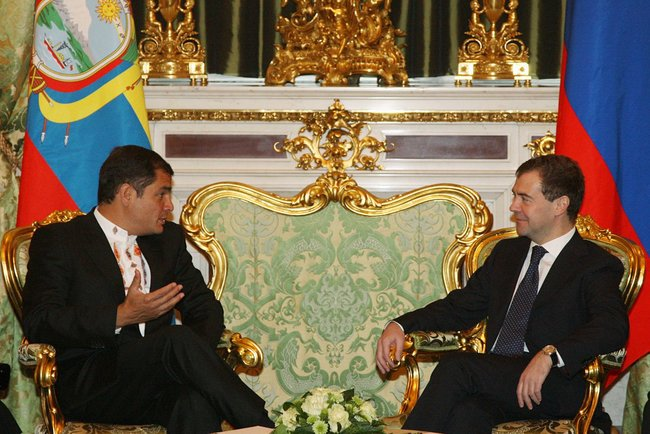 THE KREMLIN, MOSCOW. With President of Ecuador Rafael Correa.